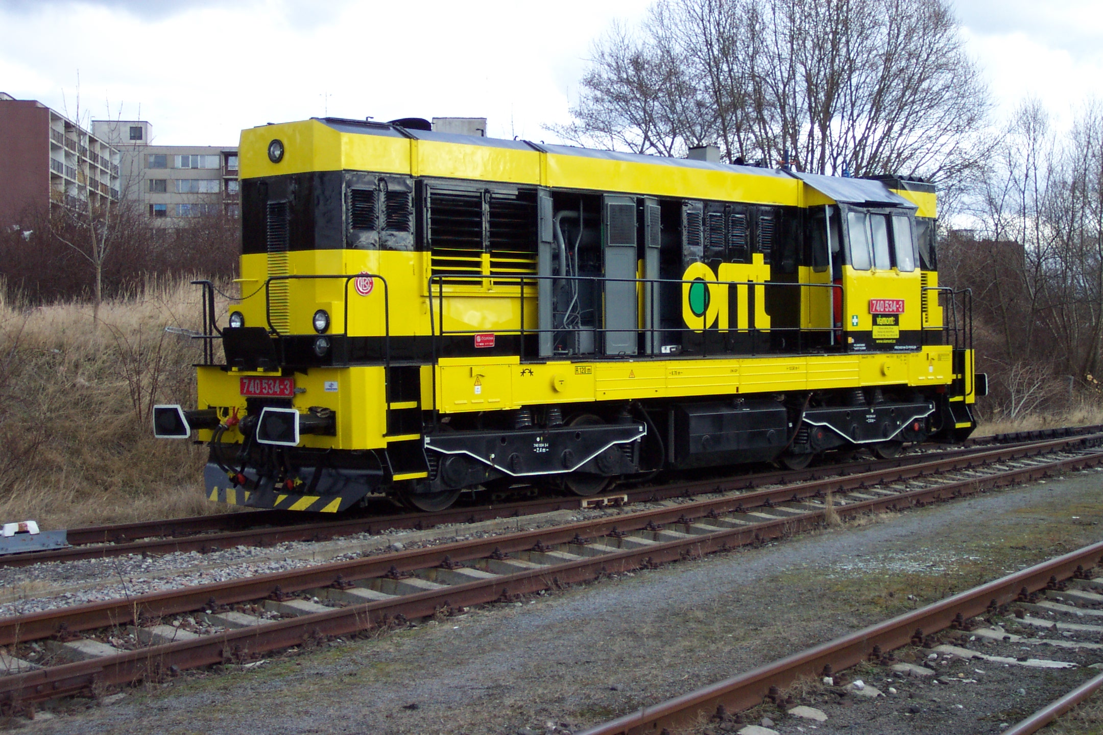 Prague, diesel locomotive class 740 at Prague Řepy station